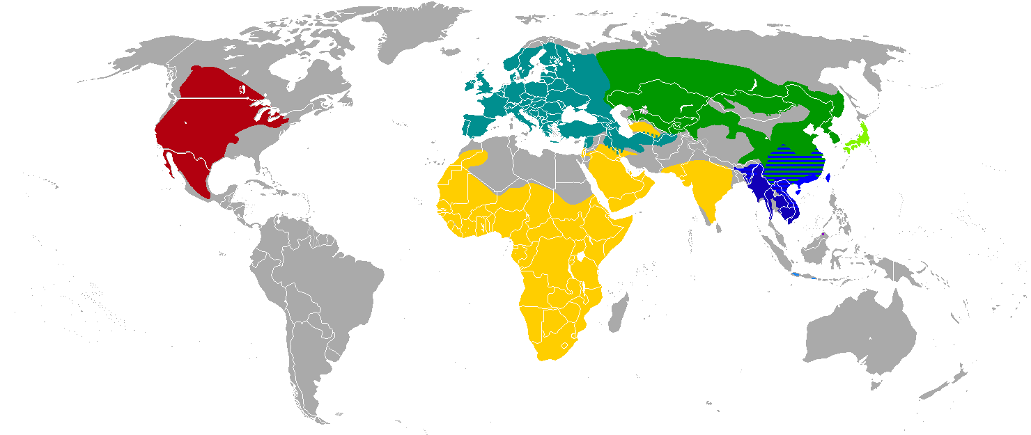 The inspiration was too confusing, so I recompiled this from a set of existing maps available on the Commons. blank map: File:BlankMap-World.png range maps (see "Other versions") Key: Gold = Honey badger (Mellivora capensis) Red = American badger (Taxidea taxus) Teal = European badger (Meles meles) Dark green = Asian badger (Meles leucurus) Lime green = Japanese badger (Meles anakuma) Blue = Chinese ferret-badger (Melogale moschata) Indigo = Burmese ferret-badger (Melogale personata) Azure = Javan ferret-badger (Melogale orientalis) Purple = Bornean ferret-badger (Melogale everetti)